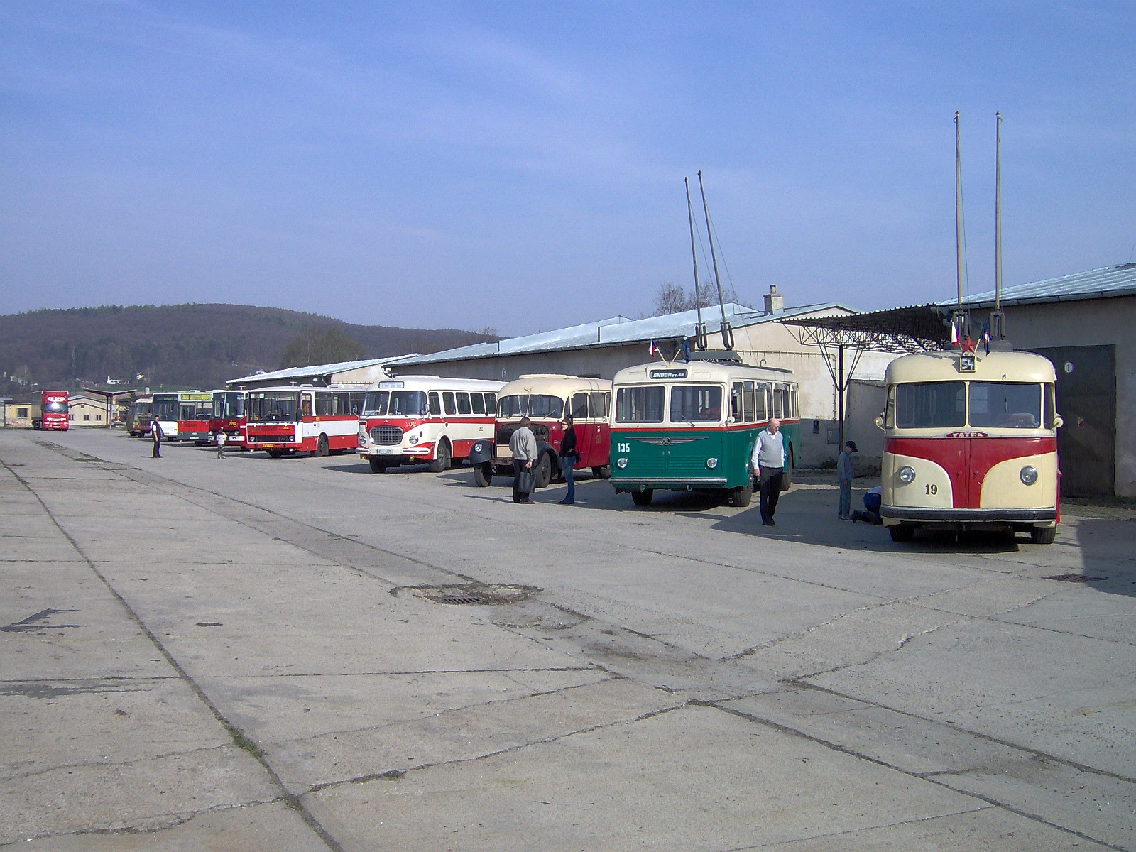 Historical trolleybuses and buses of Technical Museum in Brno, Czech Republic